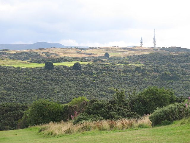 Braid Hills from Blackford Hill Worth visiting in May when the view would be yellow with the whins. The dun coloured land on the hill is a golf course.